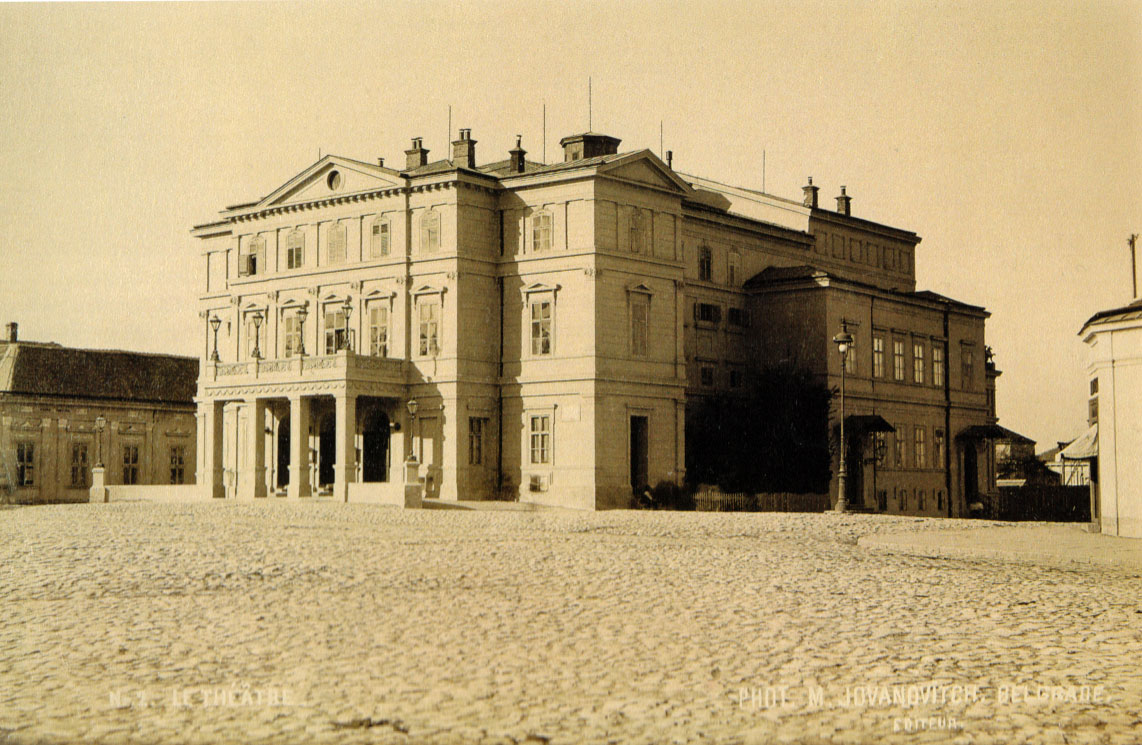 Theatre in Belgrade 1895.